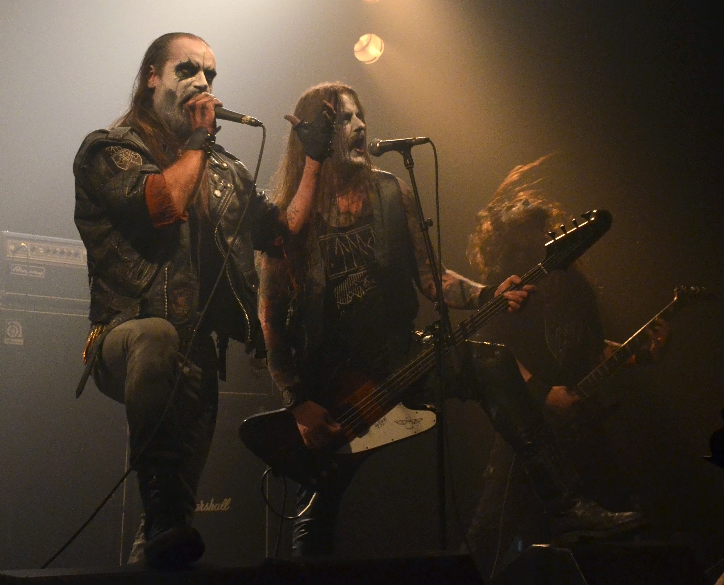 Taake, performing at the Throne Fest 2016, the 15th of May 2016 in Kuurne.